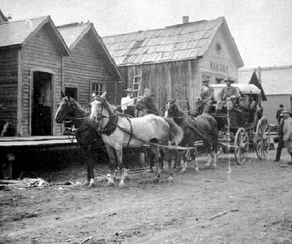 Photographer:Unknown Photo taken:190? Source:BC Archives #C-09756 [1]